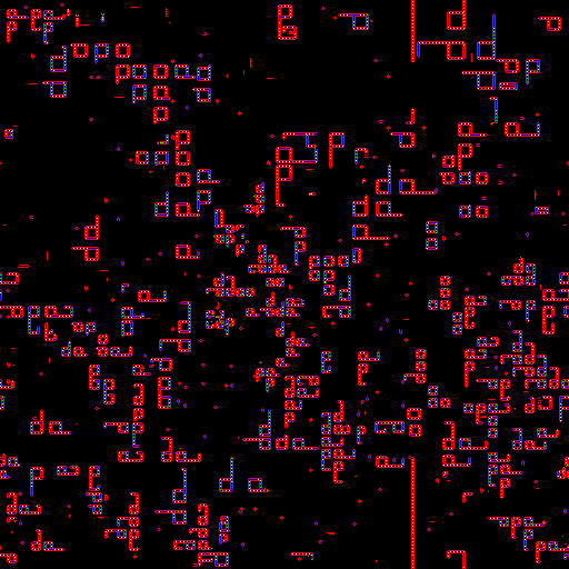 Evolution of evoloops. Different species are present but smaller ones are taking over the space. The software is EvoLoops, available here.